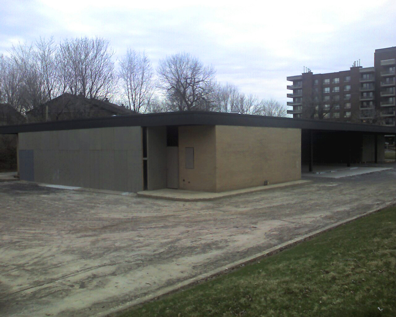 Disused Esso gas station designed by Ludwig Mies van der Rohe, Île des Soeurs, Verdun (Montreal), Quebec.